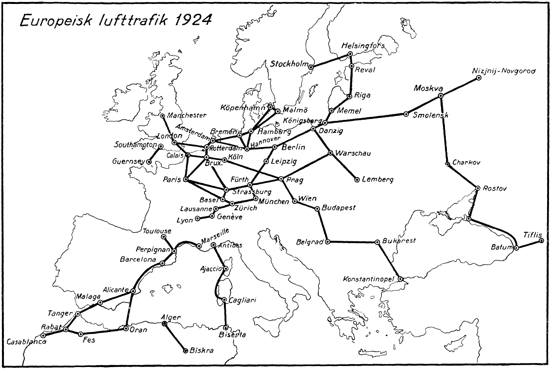 European air traffic, year 1924